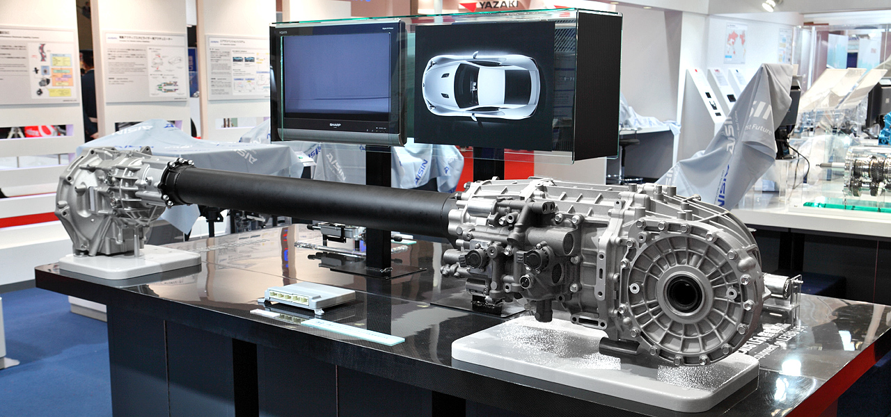 A drivetrain of Lexus LFA. It is constructed in Aisin AI SA6 6-speed automated sequential gearbox (ASG, Toyota RB60M trunsmission), and FA1 front counter gear ASSY.